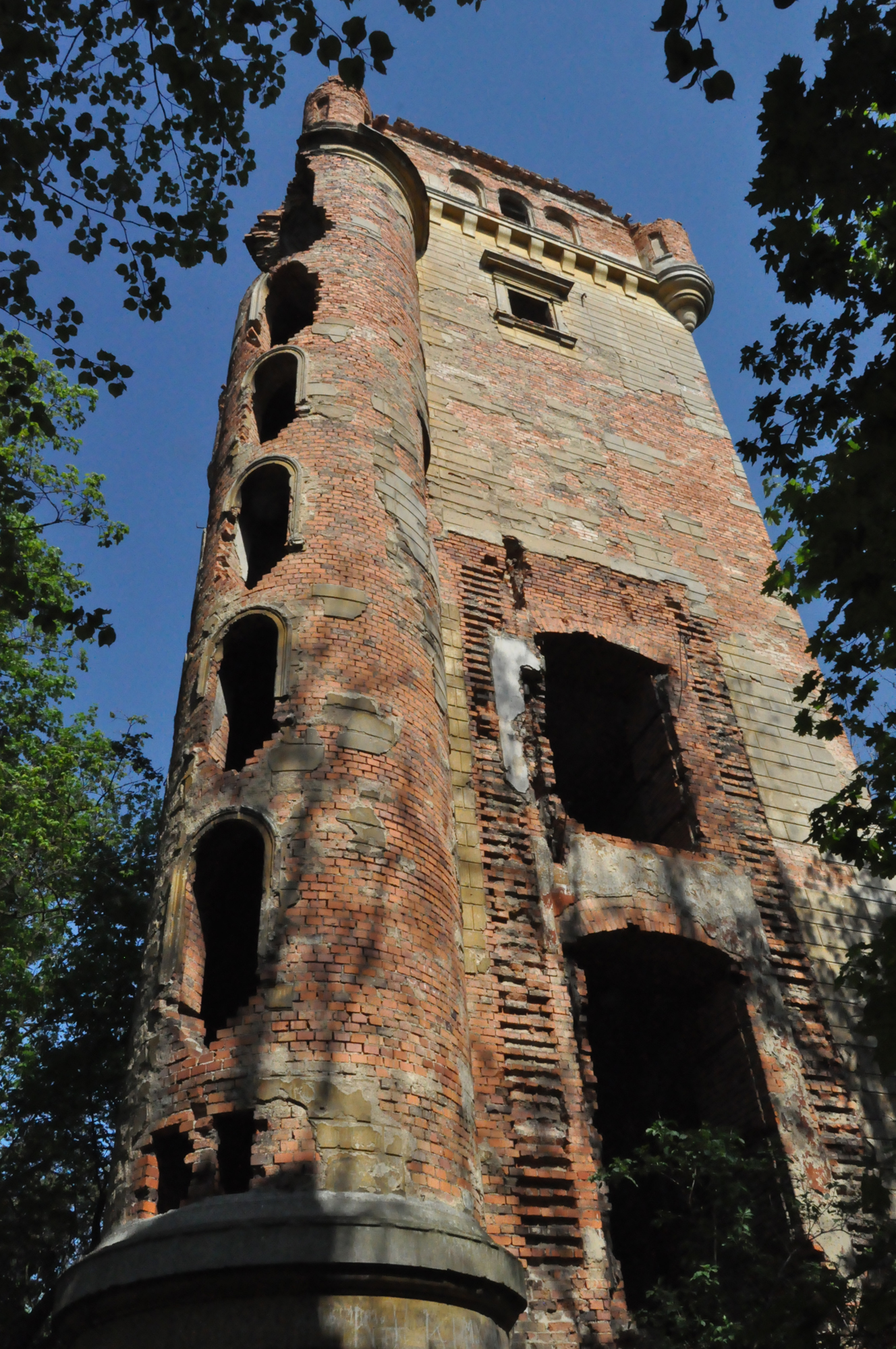 The remains of the palace Georg von Kramsta, built between 1884-1885 in the Neo-Renaissance style.